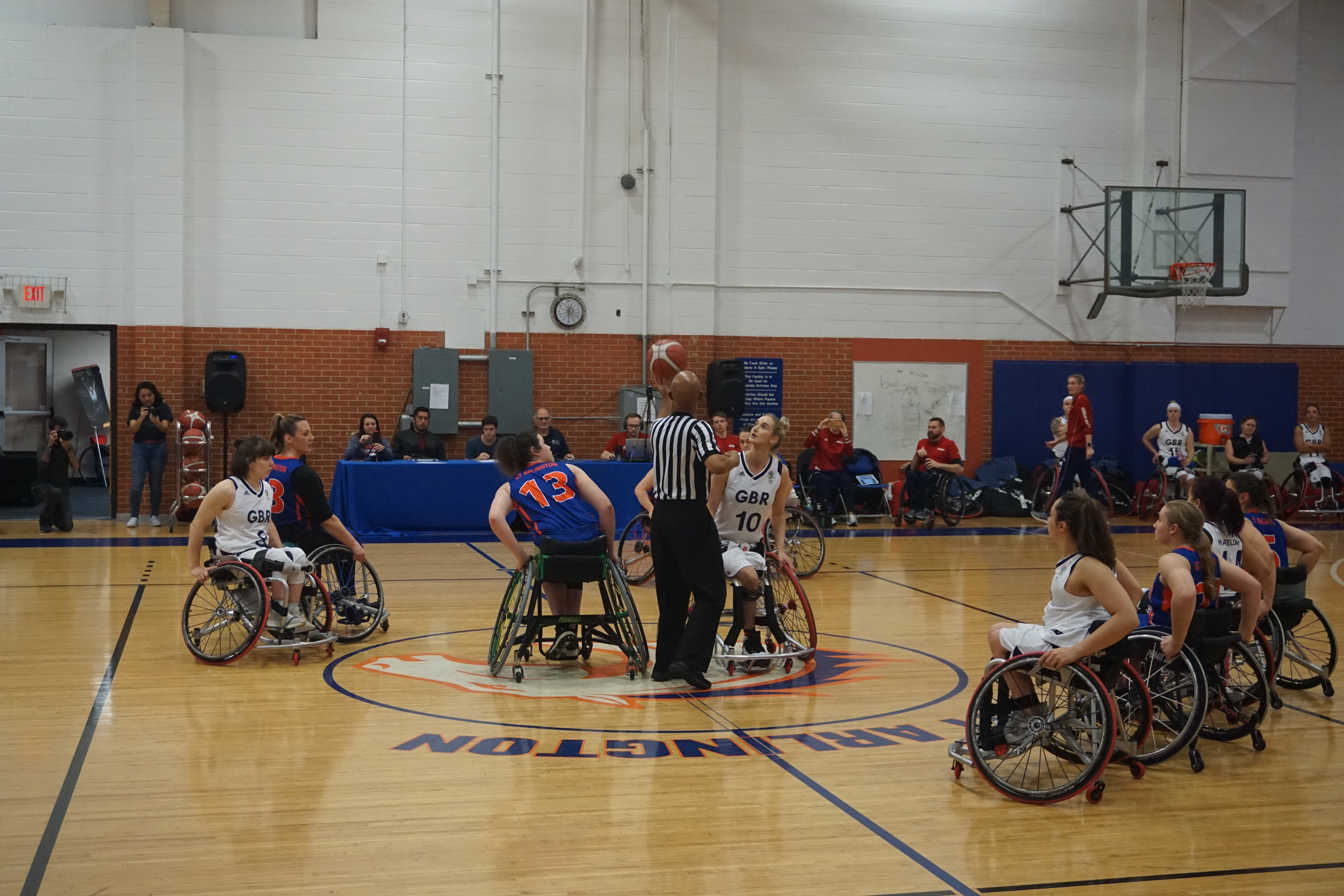 In-game action during the Great Britain vs. UT Arlington Mavericks women's wheelchair basketball game at the Physical Education Building on the campus of the University of Texas at Arlington in Arlington, Texas (United States). Great Britain won 54–38.